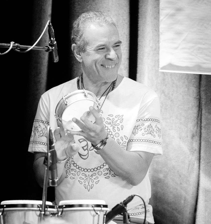 Celio de Carvalho with Desafinado at Victoria Teater. The concert was part of Oslo Jazzfestival and took place on 15. August 2018 in Oslo. Lineup: Anne Marie Giørtz (vocal) Morten Halle (saxophone) Sveinung Hovensjø (bass guitar) Bugge Wesseltoft (piano) Celio de Carvalho (percussion) Kenneth Ekornes (drums) Tom Lund (guitar)